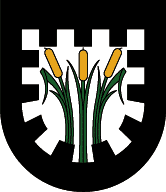 Source: "Fahnen-Gärtner GmbH, Mittersill" This file depicts a coat of arms. The composition of coats of arms are generally public domain with respect to copyright laws, and may be reproduced freely. This corresponds to the international traditional usage, and is explicitly stated in some national copyright laws. Some compositions, of more recent origin, may be copyrighted. This is not a valid license as such, being a "public domain" statement for the coat of arms definition only. It must be completed with the copyright tag associated to the picture creation. See Commons:Coats of arms for further information. Please note that this applies only to the coat of arms definition (composition / description). The representation of a coat of arms is an artistic creation, subject as such to copyright laws. Restriction of use - Legal notice: Most of the time, the usage of coats of arms is governed by legal restrictions, independent of the status of the depiction shown here. A coat of arms represents its owner. Though it can be freely represented, it cannot be appropriated, or used in such a way as to create a confusion with or a prejudice to its owner. Usage on Commons: Please provide licence information for the coat of arm representation, information for the author of the picture, and the source if not self-made work. This image is in the public domain according to Austrian copyright law because it is part of a law, ordinance or official decree issued by an Austrian federal or state authority, or because it is of predominantly official use. (§7 UrhG) To uploader: Please provide where the image was first published and who created it.